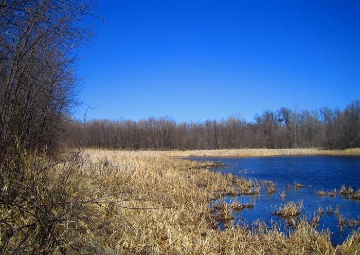 Taken yesterday in northwest minnesota, by my husband.